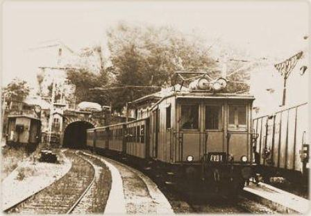 Brembilla-grotte railway station PD-Italy postcard